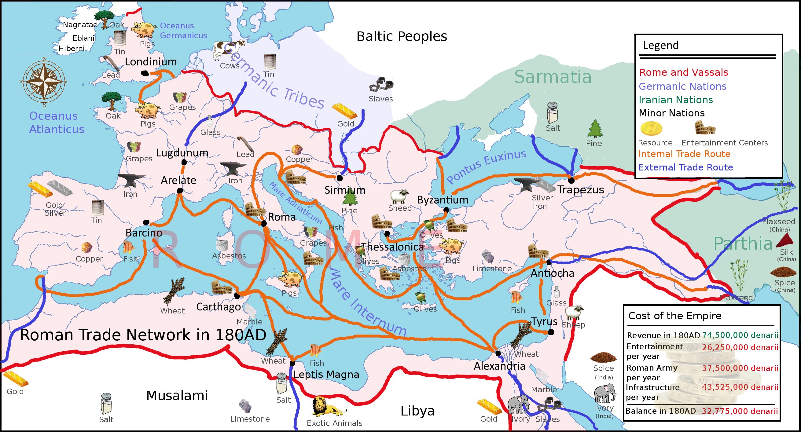 A political map of Europe in 180AD showing various Roman trade routes and important trade goods.